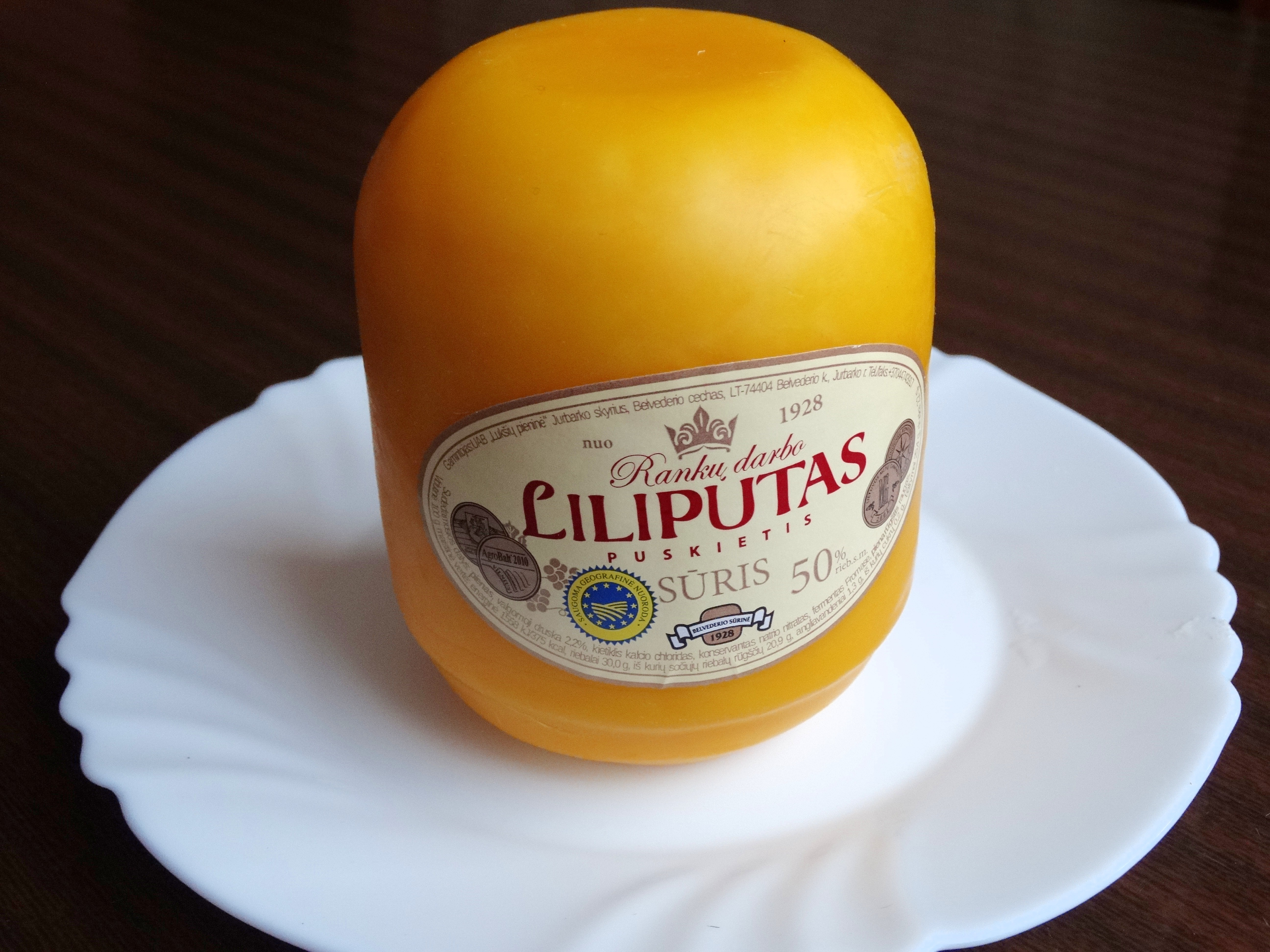 Traditional Lithuanian food: cheese „Liliputas“